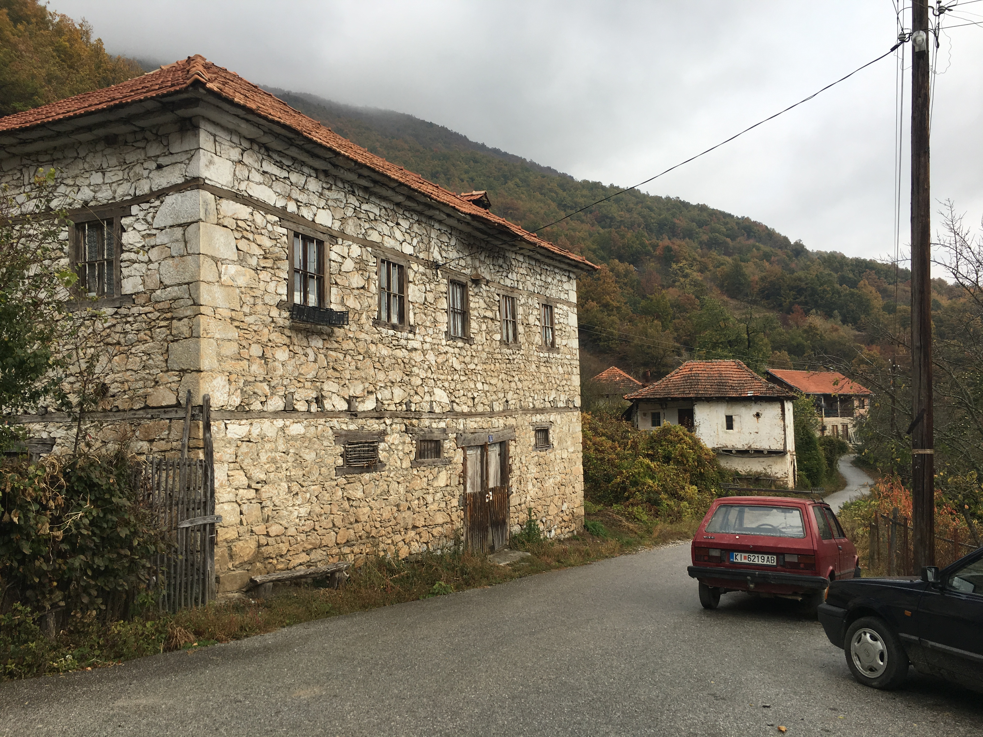 Wikiexpedition to Kopačka